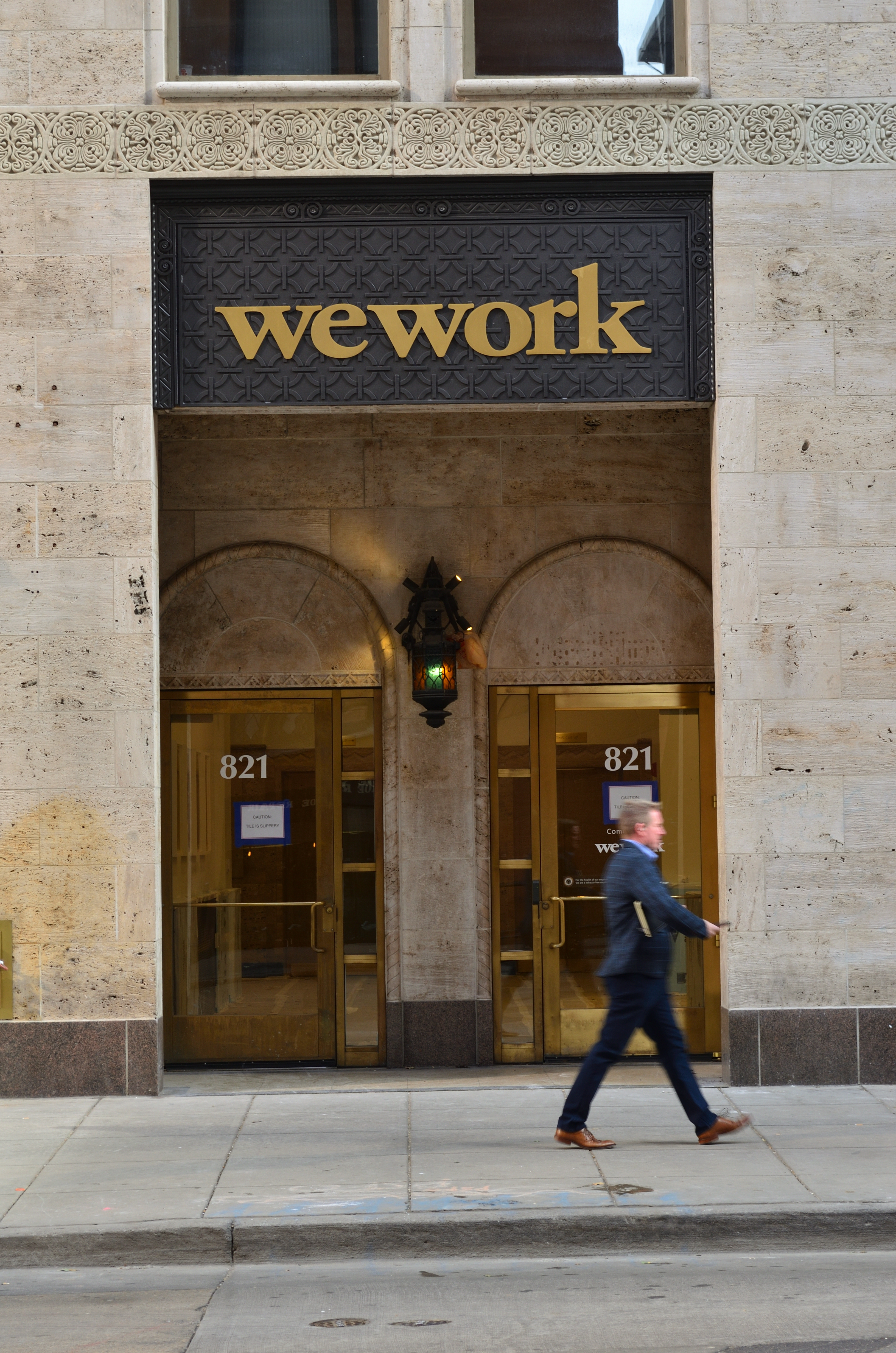 WeWork The Vault - Address: 821 17th Street, Denver, CO 80202